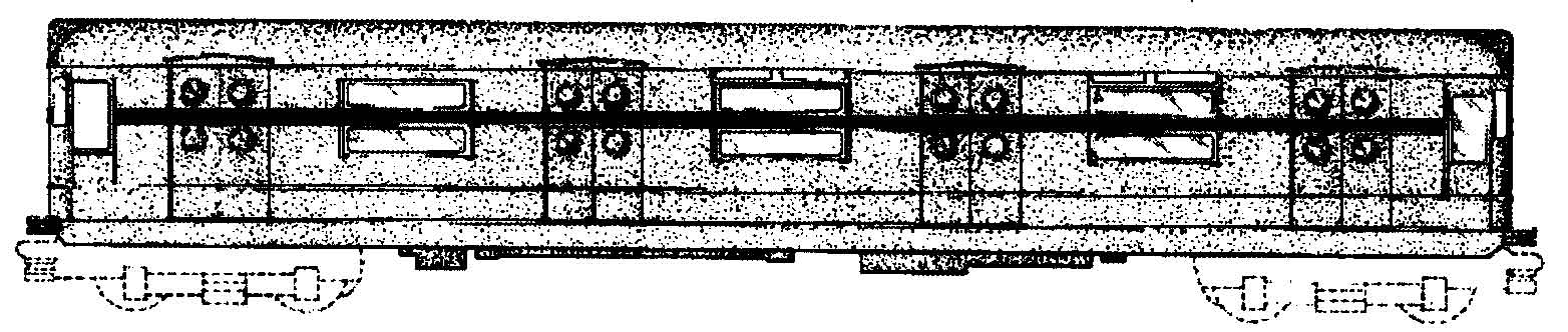 drawing of subway car